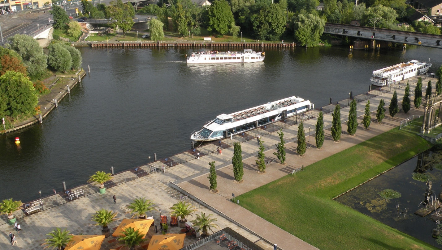 Harbour at Lange Brücke (Long Bridge) in Potsdam